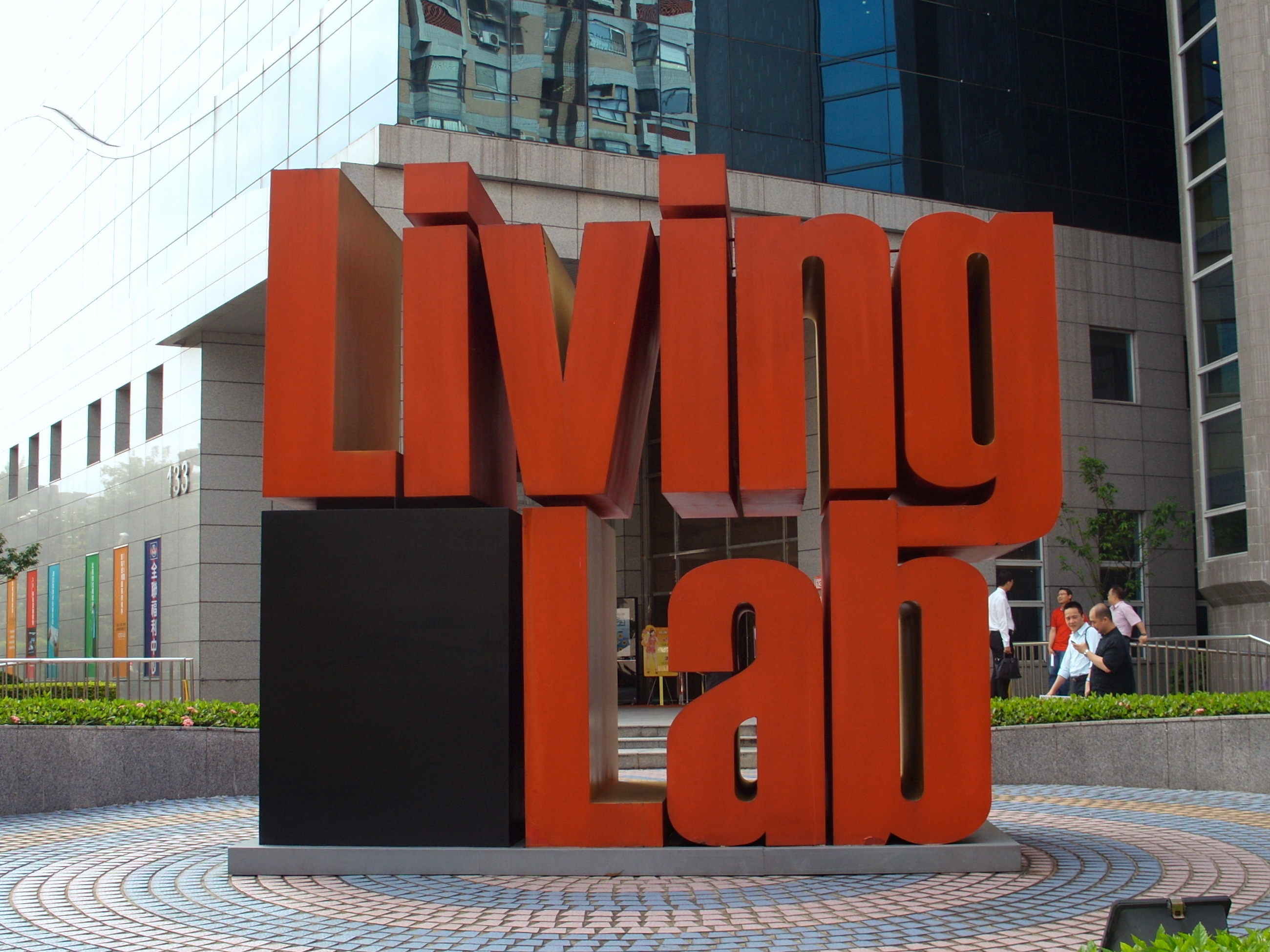 Living Lab sign at the front gate of ITeS Building.